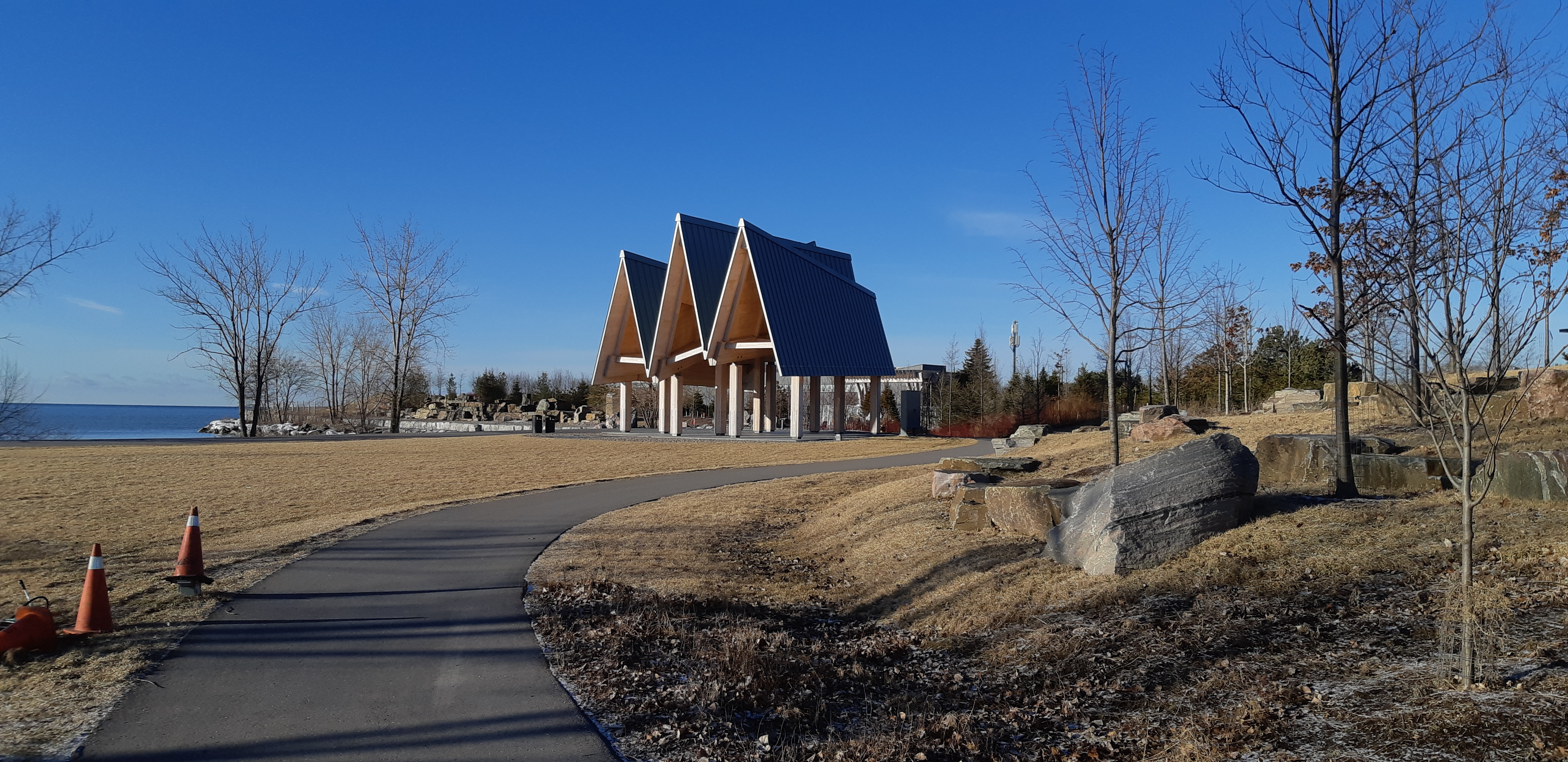 The pavilion in Trillium Park in Ontario Place